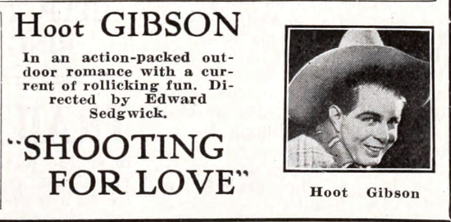 Advertisement for the American western film Shootin' for Love (1923), titled here as Shooting for Love, with Hoot Gibson, on page 33 of the August 4, 1923 Universal Weekly.